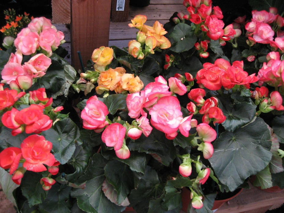 Begonia plants in full bloom